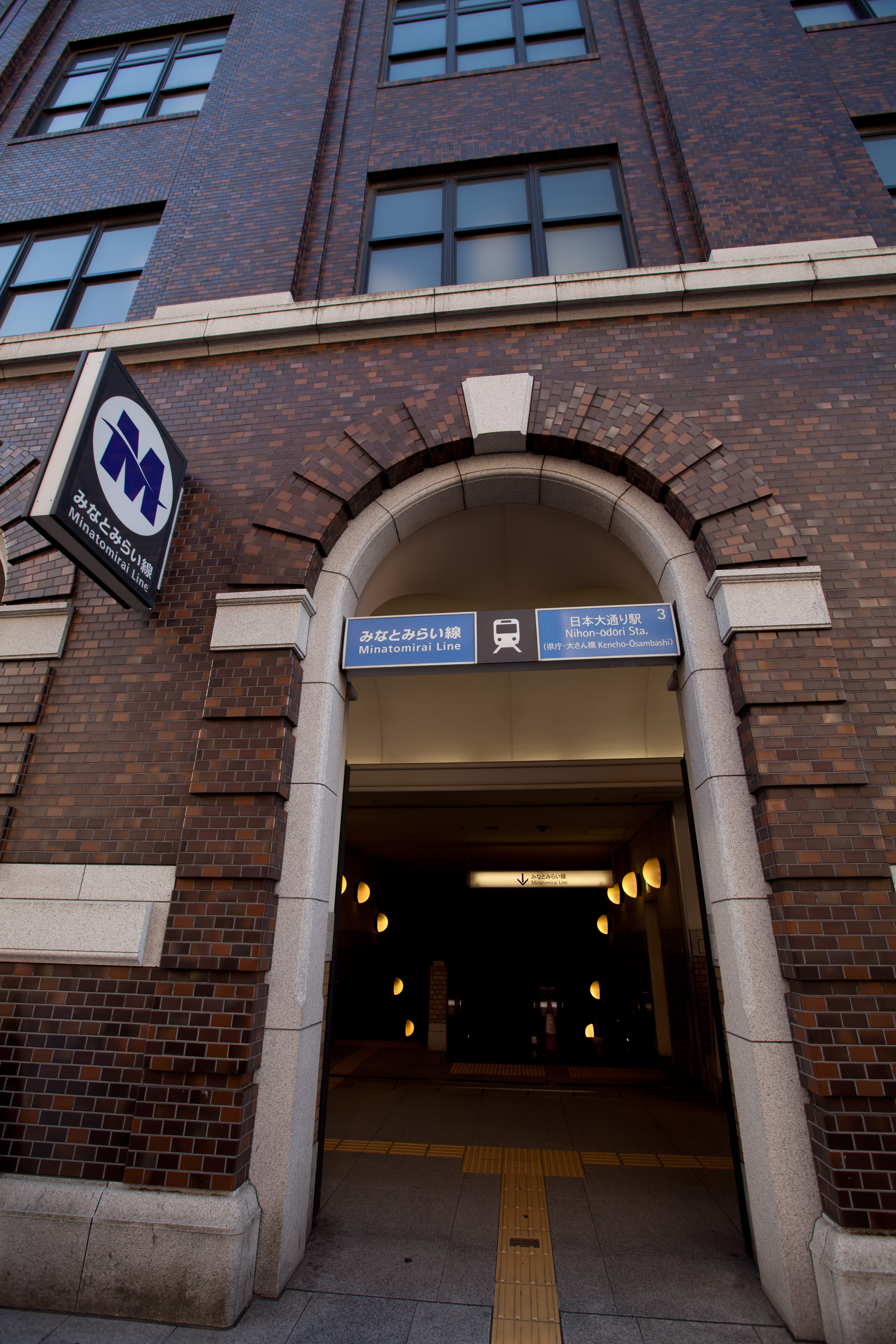 Nihon-ōdōri Station Exit3